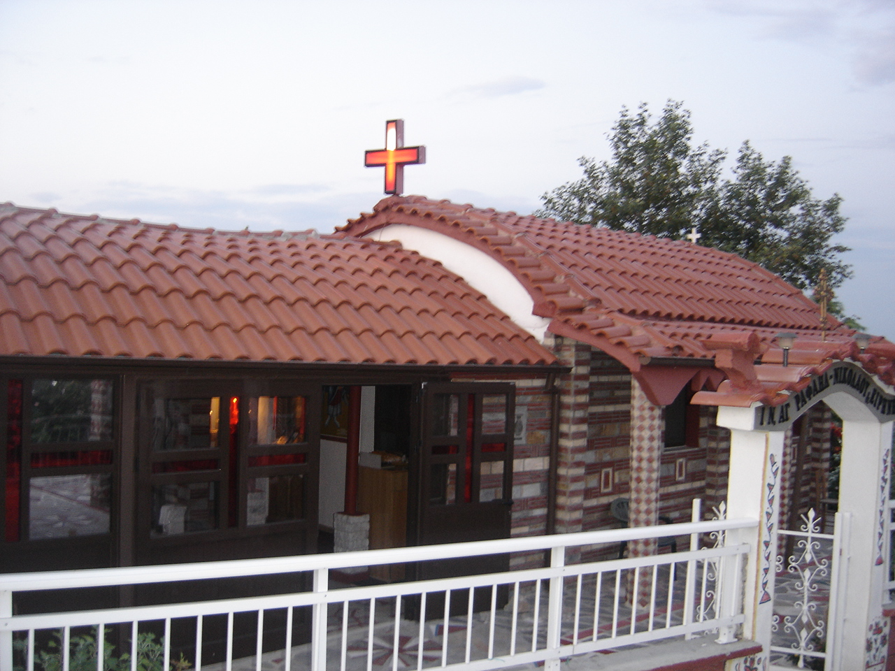 Church of Saint Raphael, Nicolas and Irene, at Toxo, Pieria.